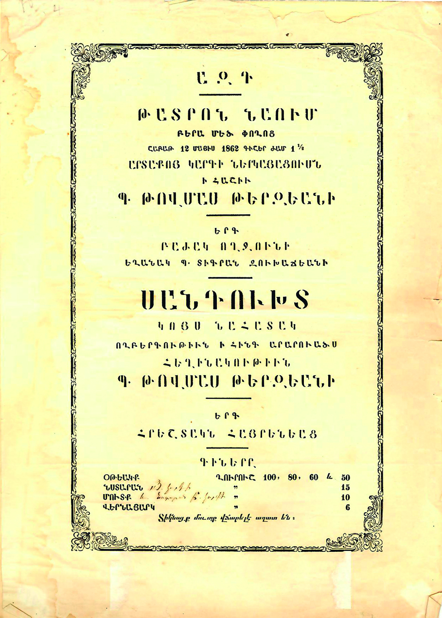 The poster of Tovmas Terzian's "Sandukht" tragedy in Constantinople, May 12, 1862. Music by Tigran Tchoukhajian